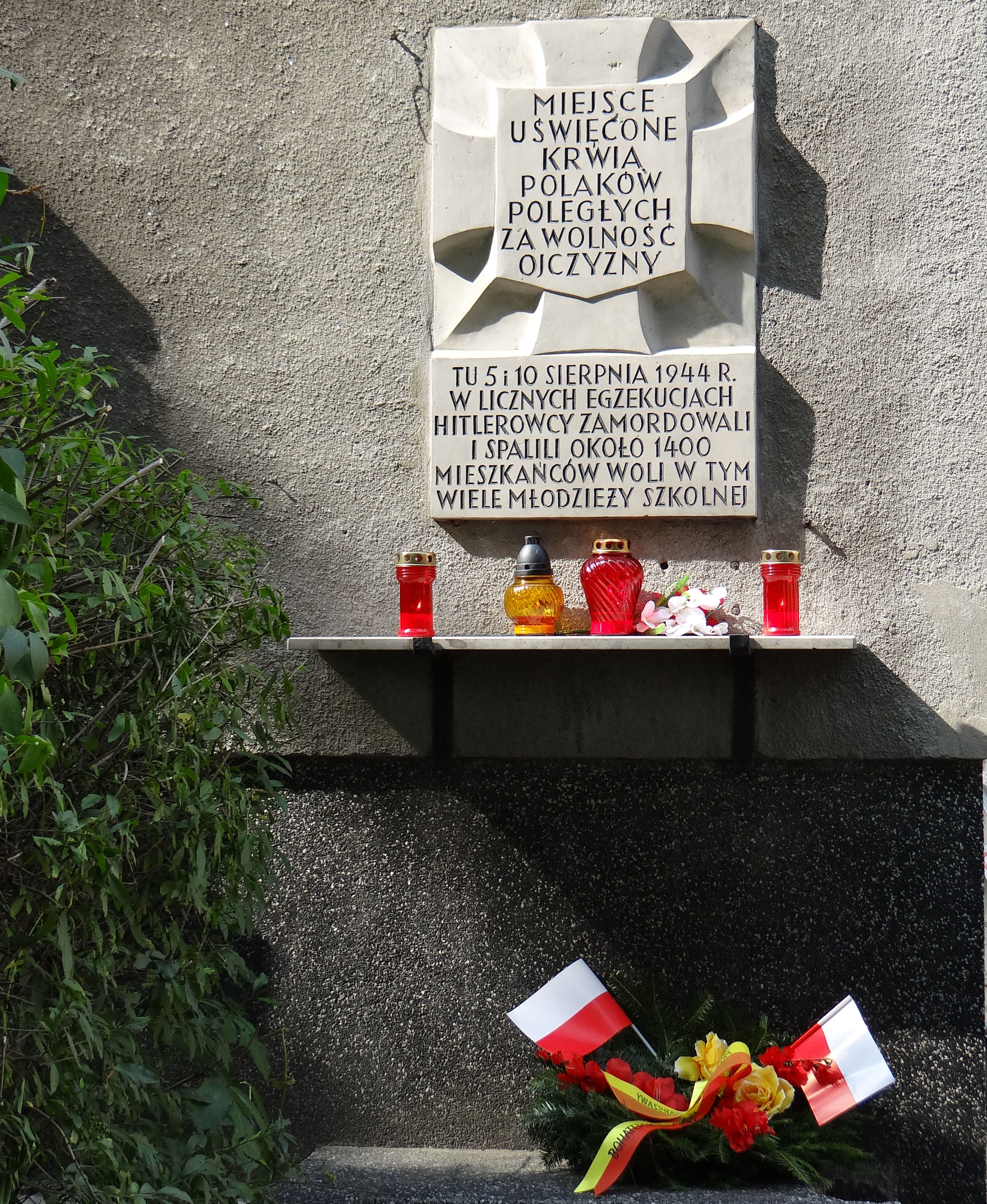 Plaque at 53 Karolkowa Street in Warsaw (as seen from Solidarności Avenue) commemorating almost 1400 Polish civilians (mostly patients of St. Lazarus Hospital) murdered in this place by German troops on 5th August 1944 - during so-called Wola Massacre (5th August 1944 – fifth day of Warsaw Uprising). Among the victims were also eleven Polish Girl Scouts.